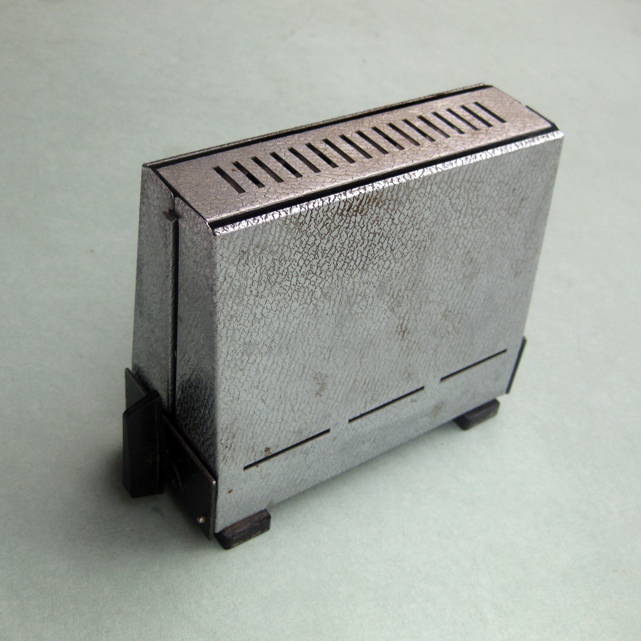 Toaster "hageka" made by Elektro-Maschinen-und Gerätebau Hans-Georg Krüger KG. Designer: unknown, propably Klaus Kunis.